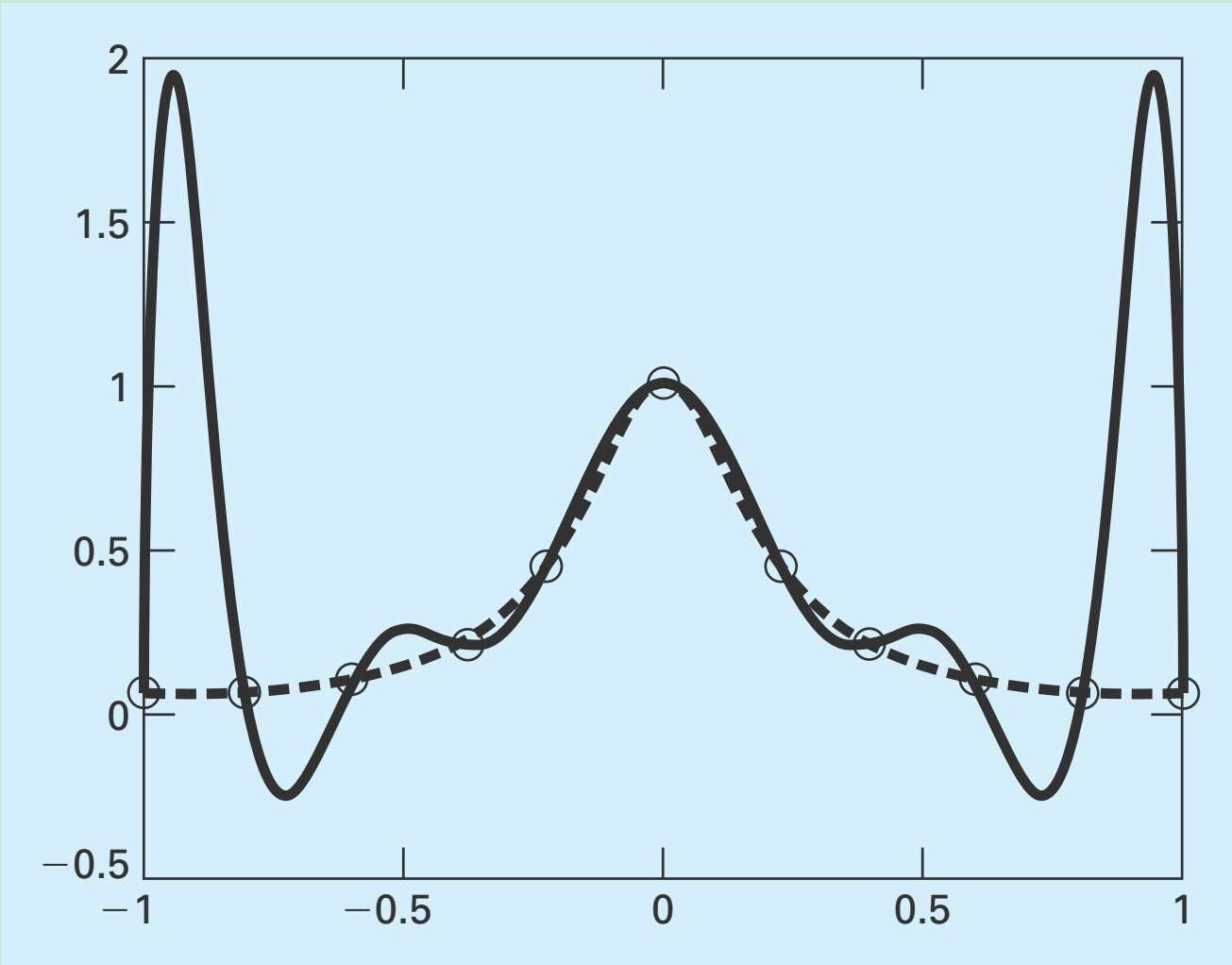 Comparison of Runge's function (dashed line) with a tenth-order polynomial fit to 11 points sampled from the function. [1]